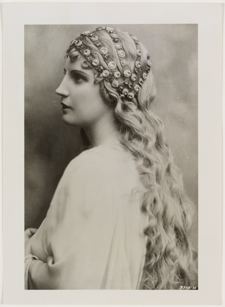 Happy 200th Birthday Richard Wagner from the State Library of NSW, 22 May 2013 Format: Photograph Notes: Find more detailed information about this photograph: .au/item/itemDetailPaged.aspx?itemID=421461 Search for more great images in the State Library's collections: .au/search/SimpleSearch.aspx From the collection of the State Library of New South Wales